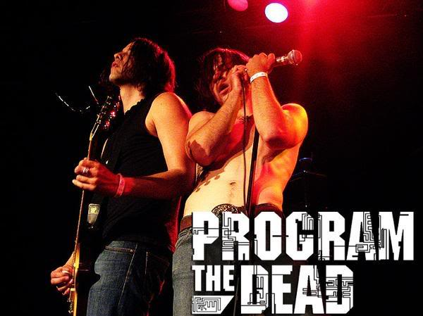 Nico on stage with Program The Dead